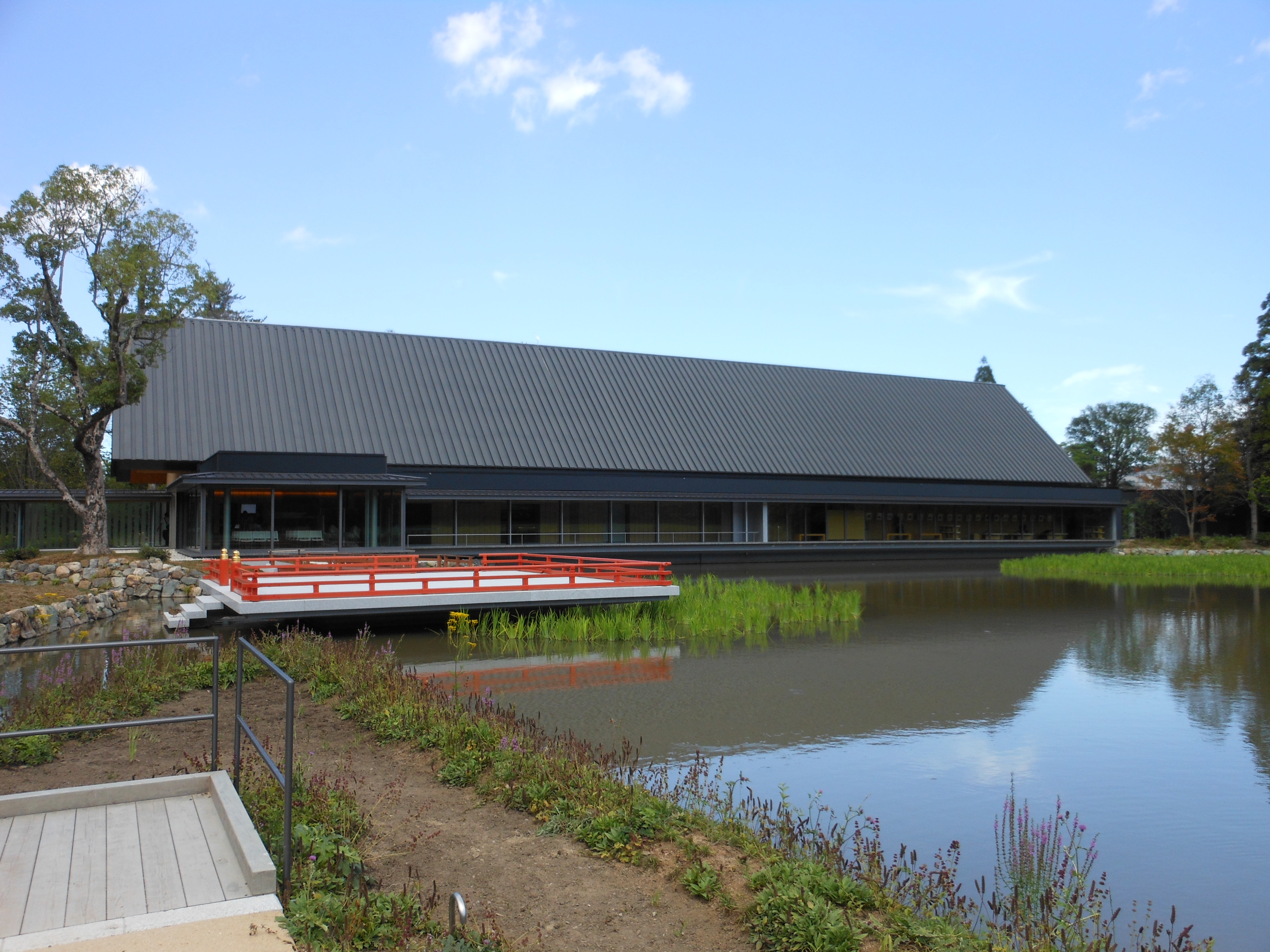 This is the Sengukan museum in Ise, Mie, Japan.